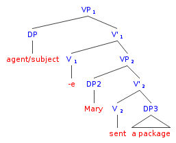 blahskjs